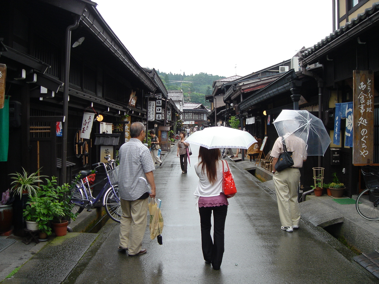 A market in Takayama